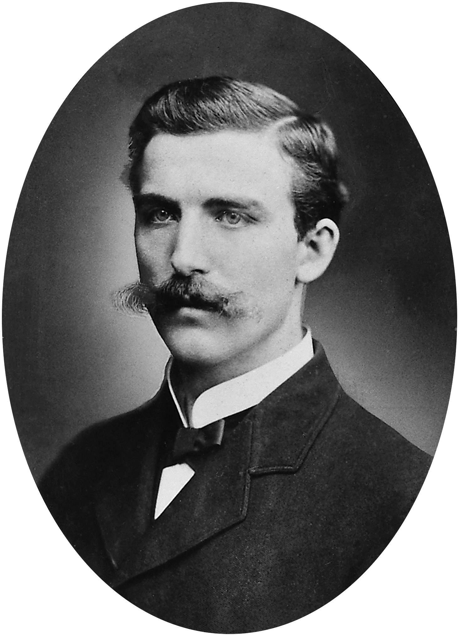 Henry Solomon Wellcome